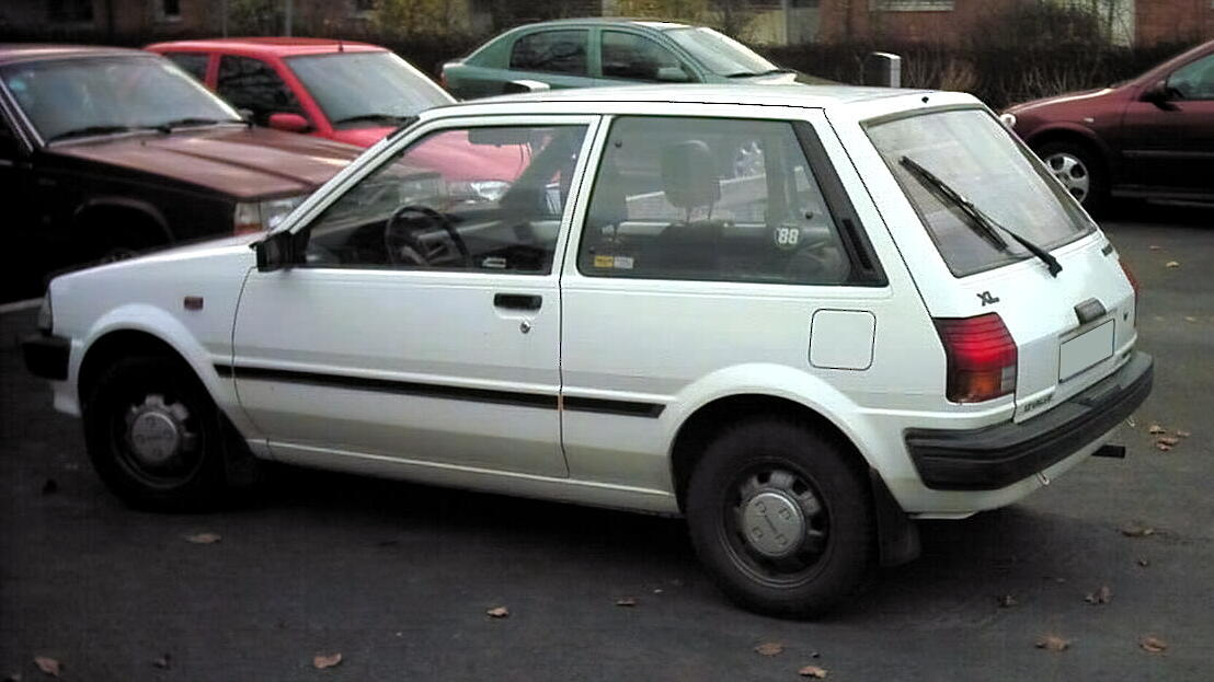 1988 Toyota Starlet 1.0 XL (EP70) 3 door Hatchback, 53kW G0EP7105. Photo taken by me in Jönköping 2005-11-10.